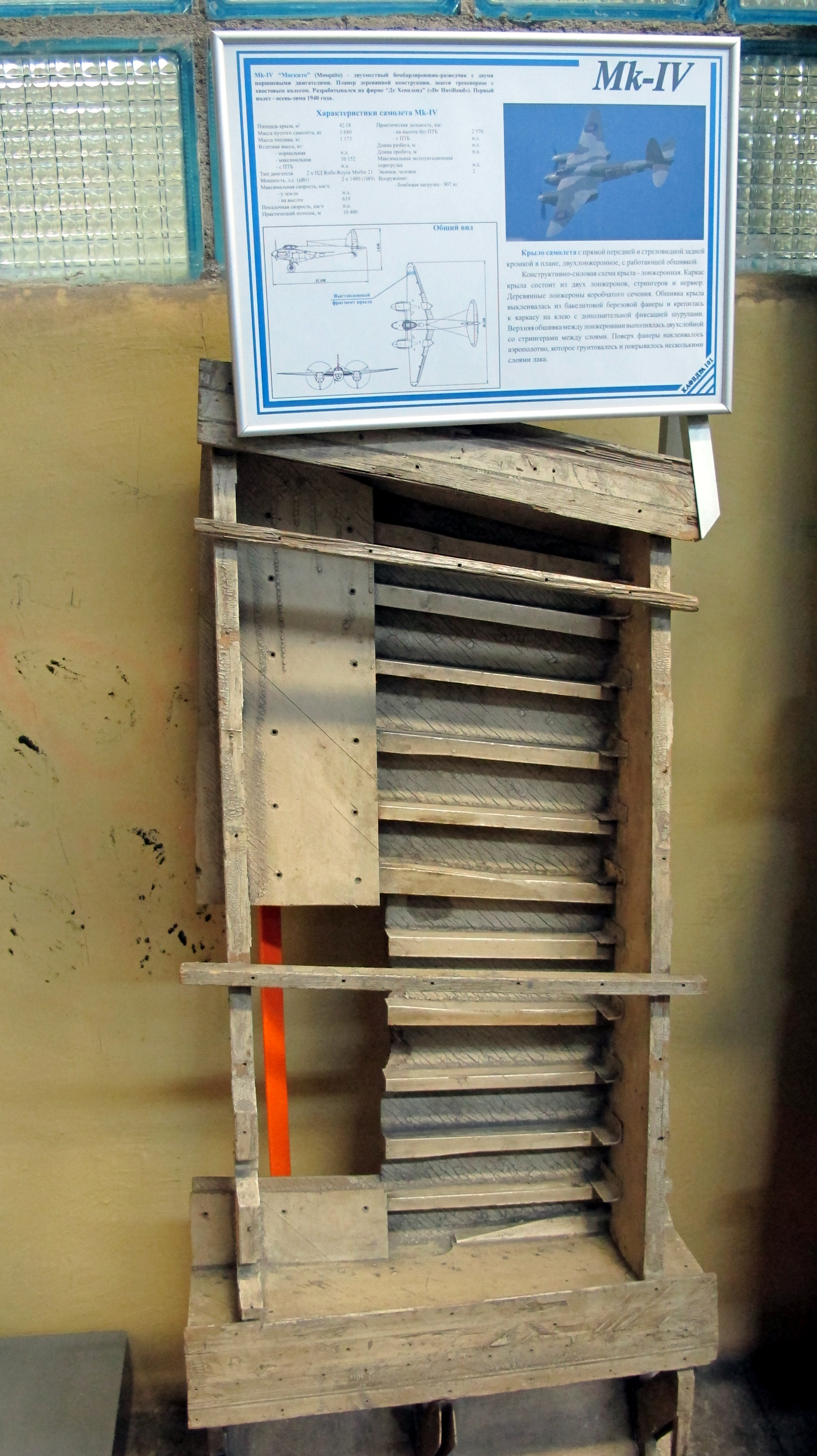 Wikitrip to MAI museum 2016-02-02. De Havilland Mosquito